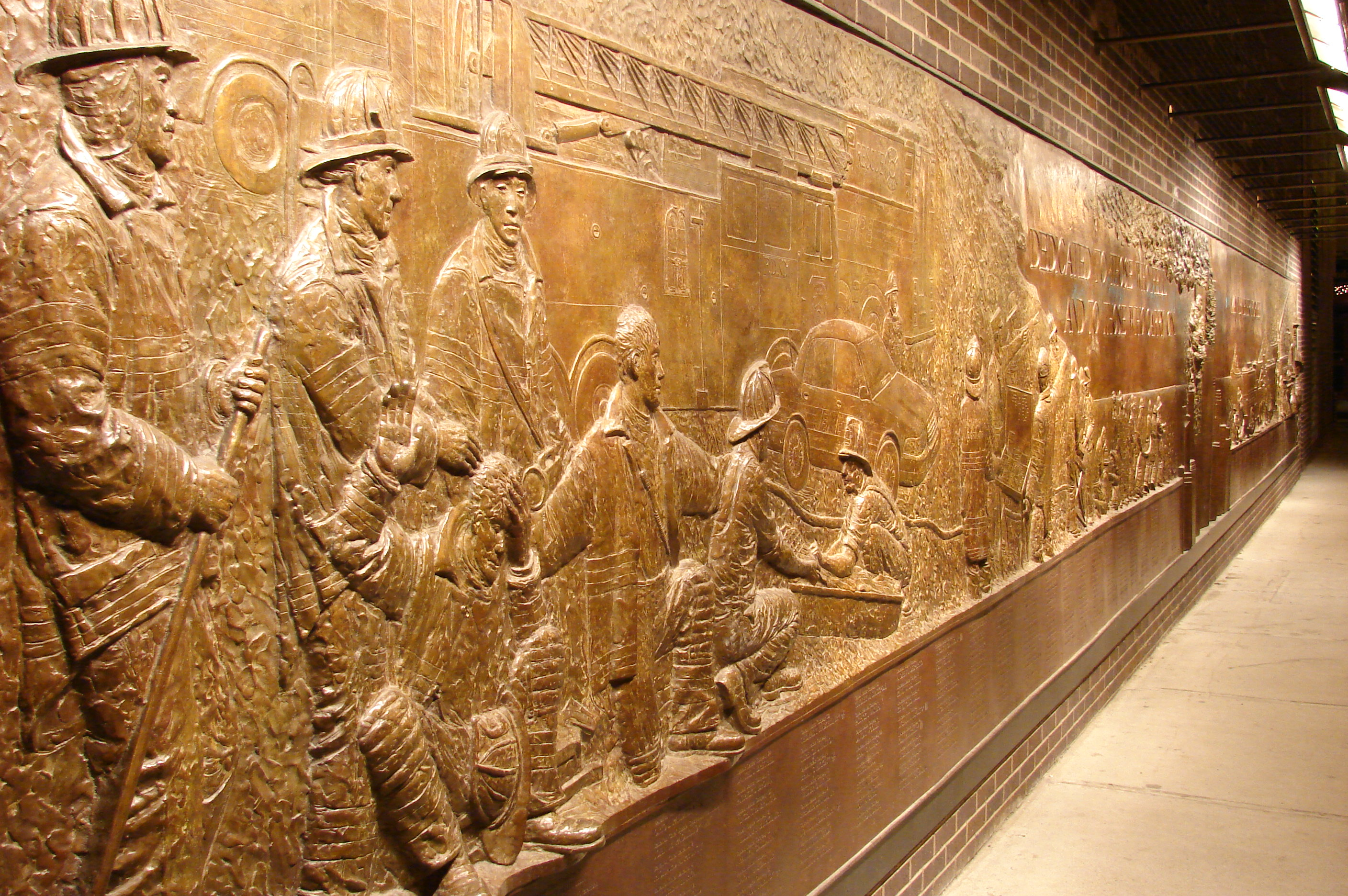 Memorial mural plaque dedicated to the firefighters killed during the terrorist attacks of September 11, 2001 on the World Trade Center (New York, NY). "Dedicated to those who fell and to those who carry on"